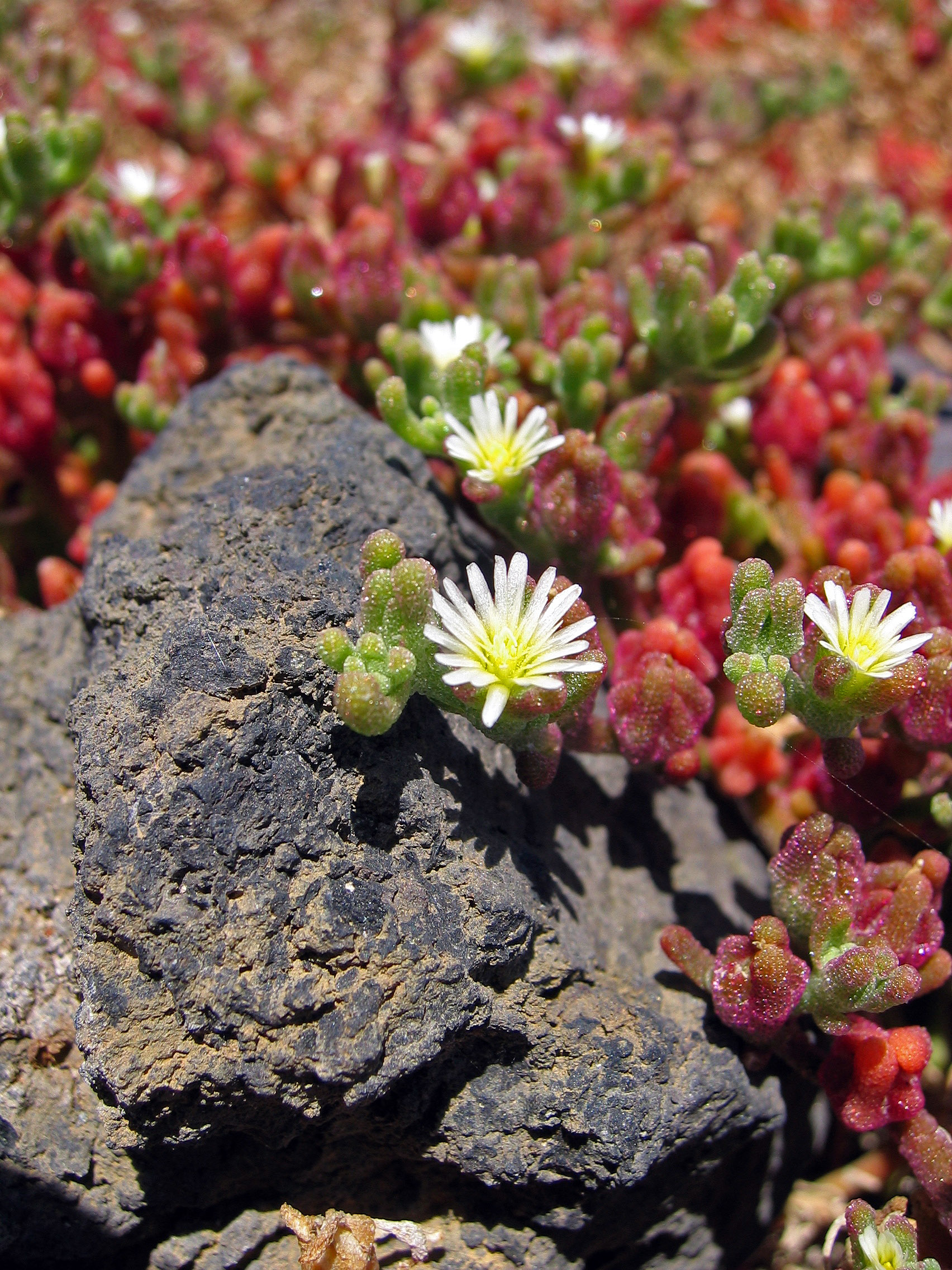 Mesambryanthemum nodiflorum (or Delosperma sp.?), Los Cancajos, La Palma, Spain